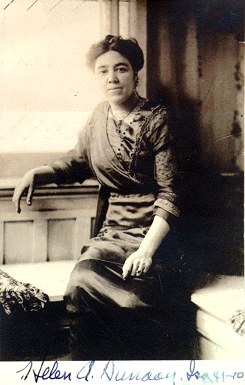 photograph of Helen Thompson "Nell" Sunday, 1912